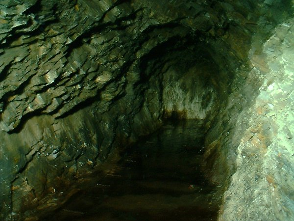 A disused water tunnel at the Wendefurth Dam in the Harz mouhtains of Germany